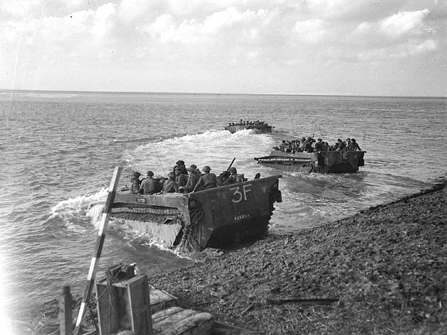 'Buffalo' amphibious vehicles taking troops of the Canadian First Army across the Scheldt in Holland, September, 1944.